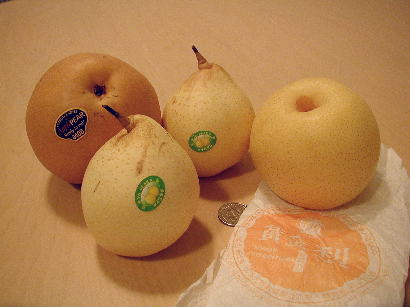 Pyrus pyrifolia 'Shinko' (left), Pyrus bretschneideri 'Ya Li' (two in the center), and P. pyrifolia 'Whangkeum' (right)